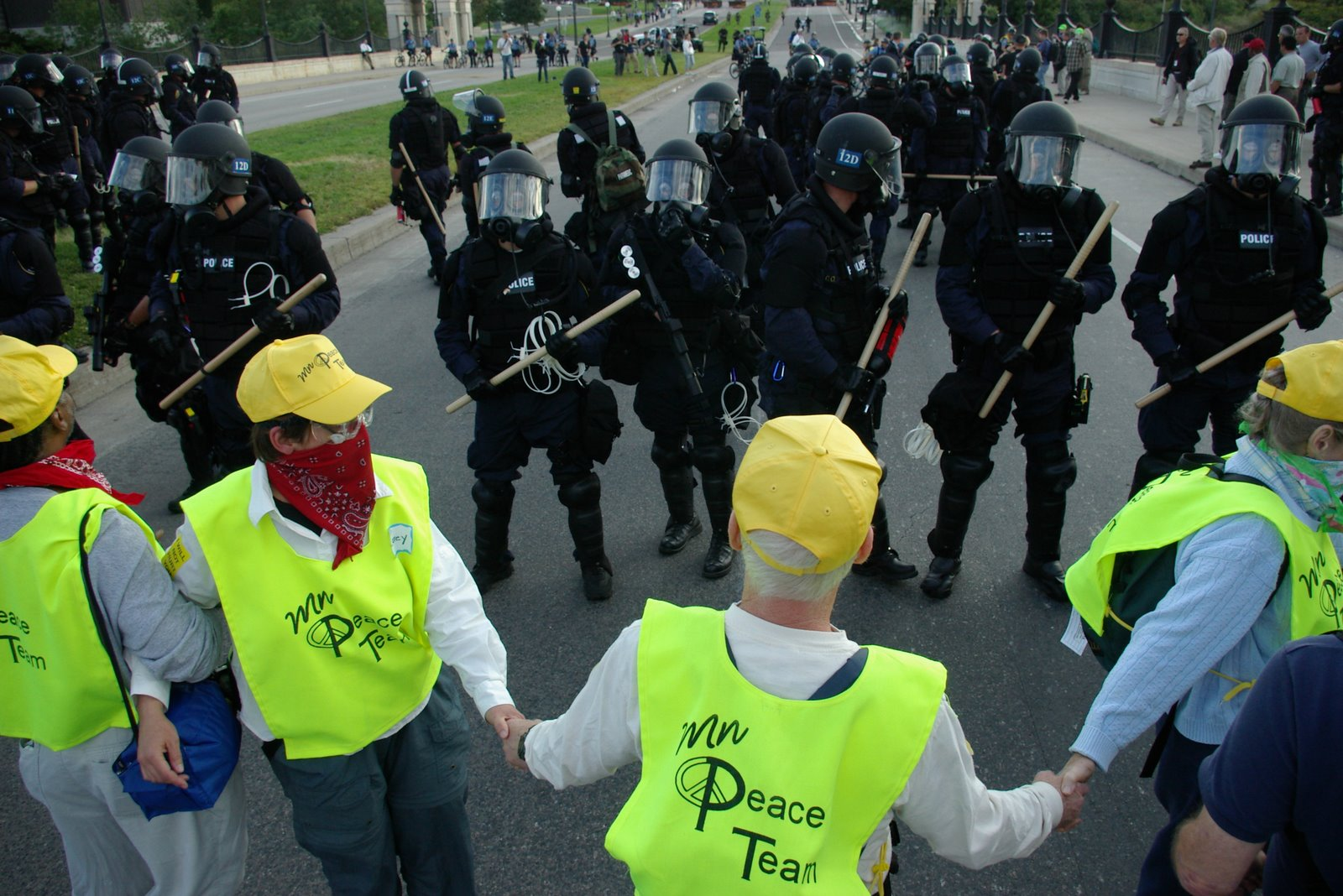 The Minnesota Peace Team and the police in Saint Paul, Minnesota at the w:2008 Republican National Convention